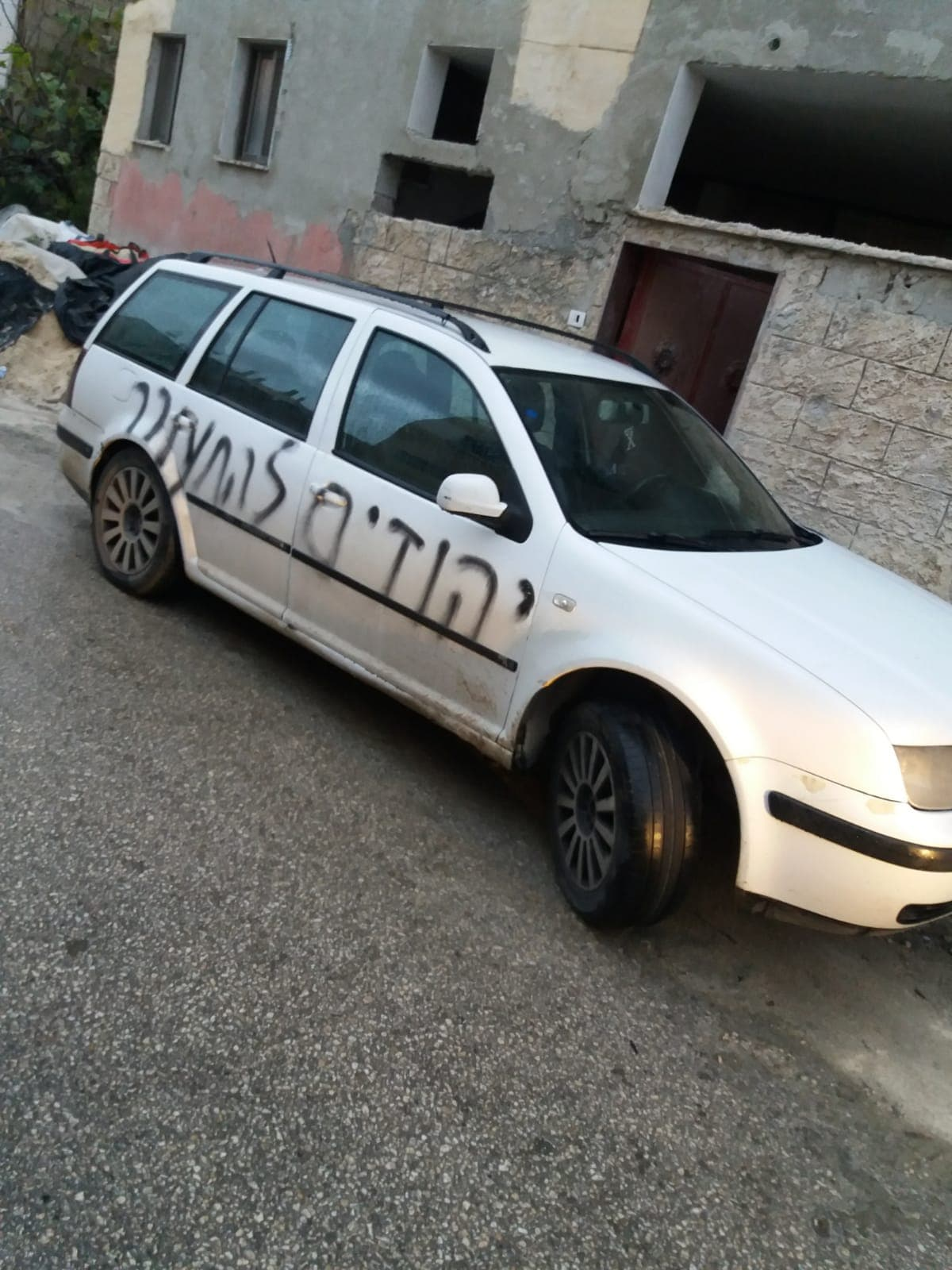 Vandalized car in a village near the Israeli settlement Kfar Tapuach "price tag" action on Dec 2018